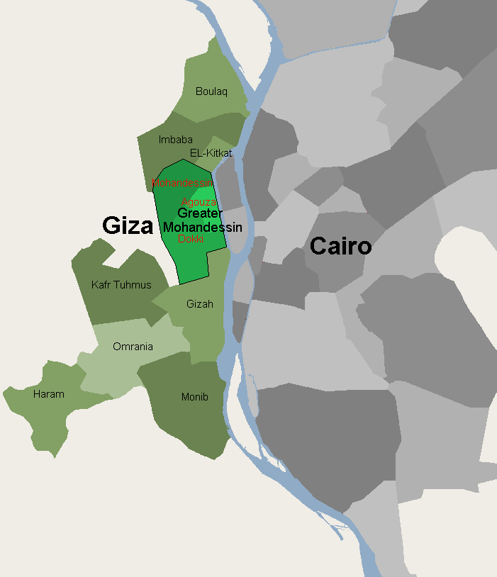 Map locator of Mohandesin